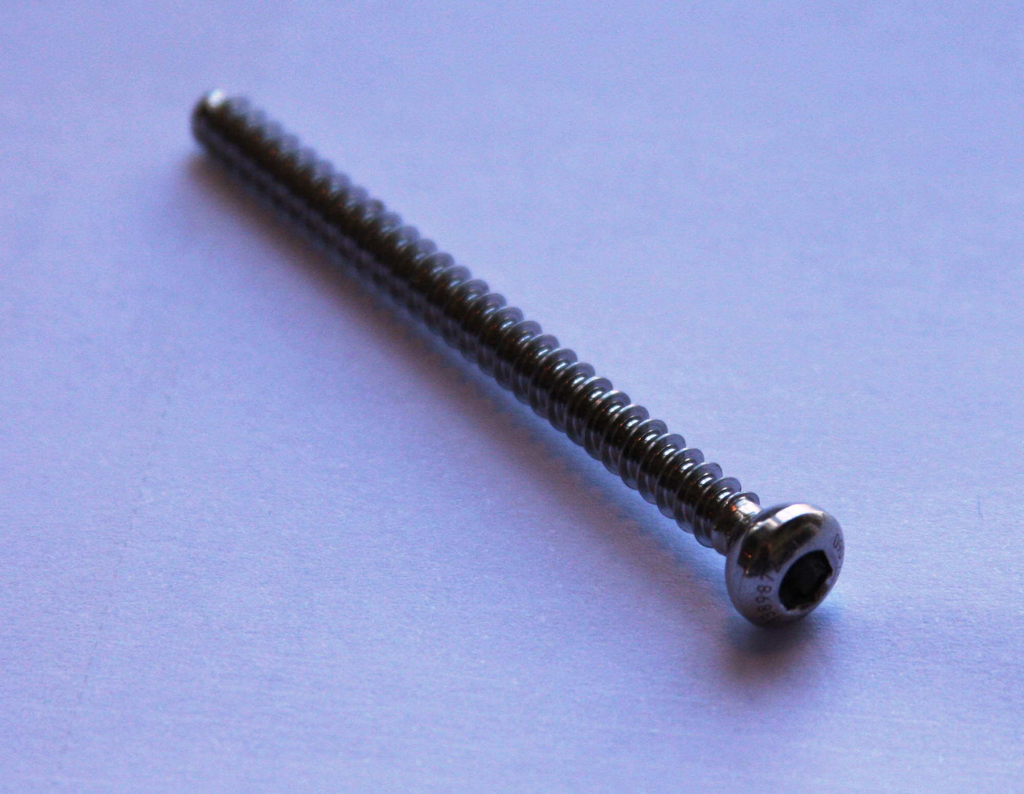 Syndesmotic screw, 6 cm long, from human tibia-fibula surgery. Oslo, Norway.